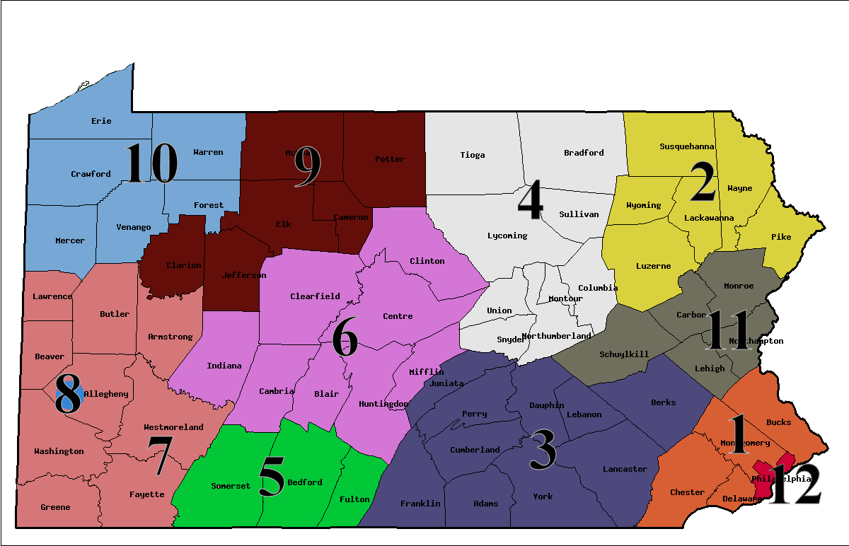 Map depicting the districts of Pennsylvania high school sports and their regions within state